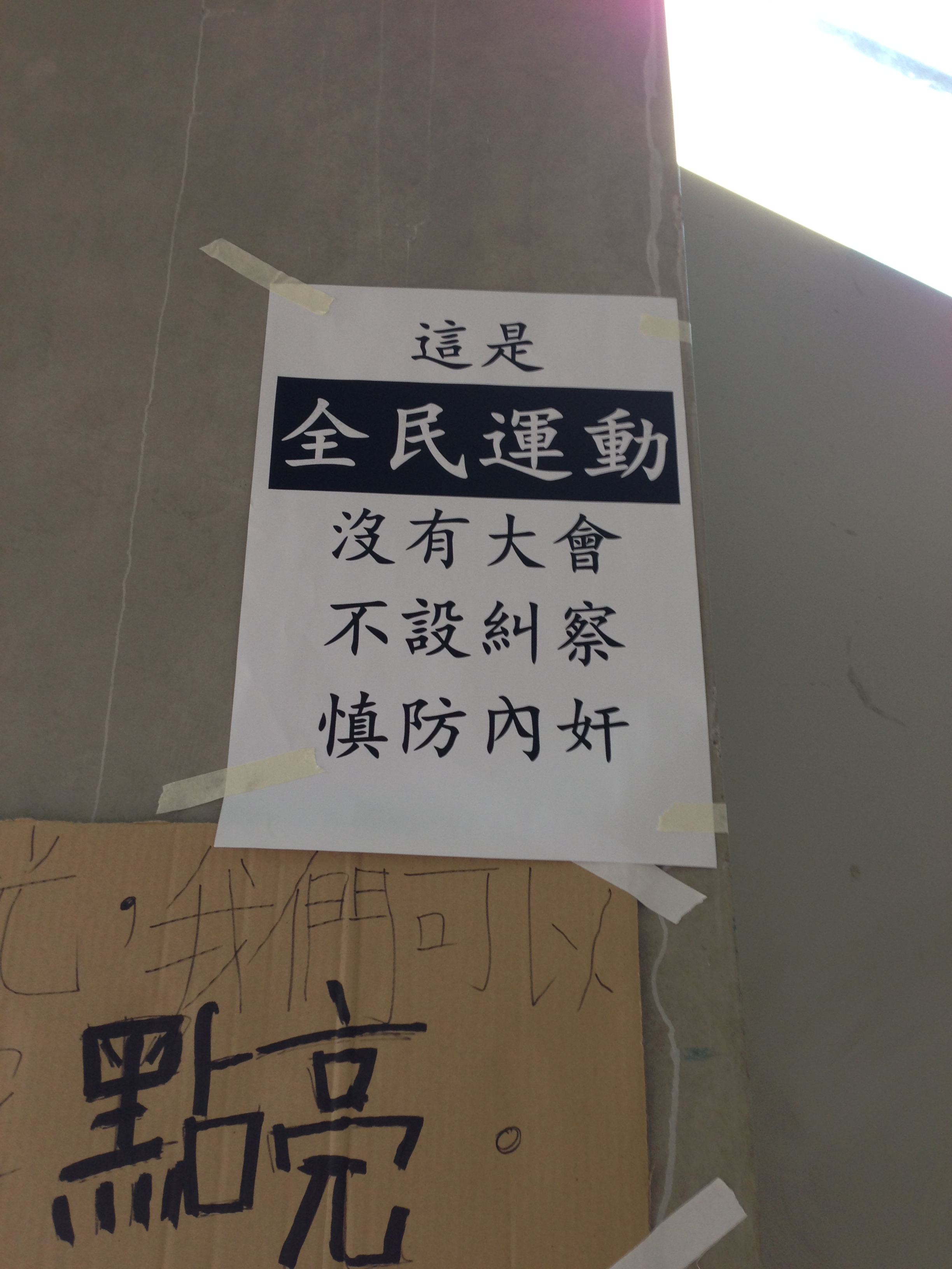 Photo showing poster stating that the protest has no leading organisation.